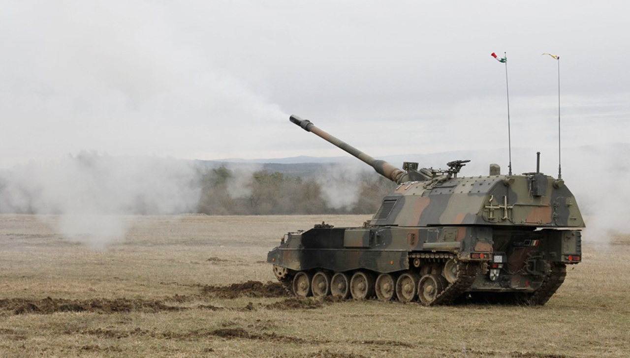 Italian Army 8th Field Artillery Regiment "Pasubio" Panzerhaubitze 2000 firing